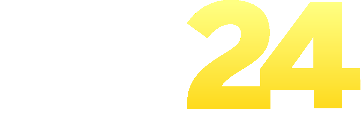 This is the Logo of oe24.